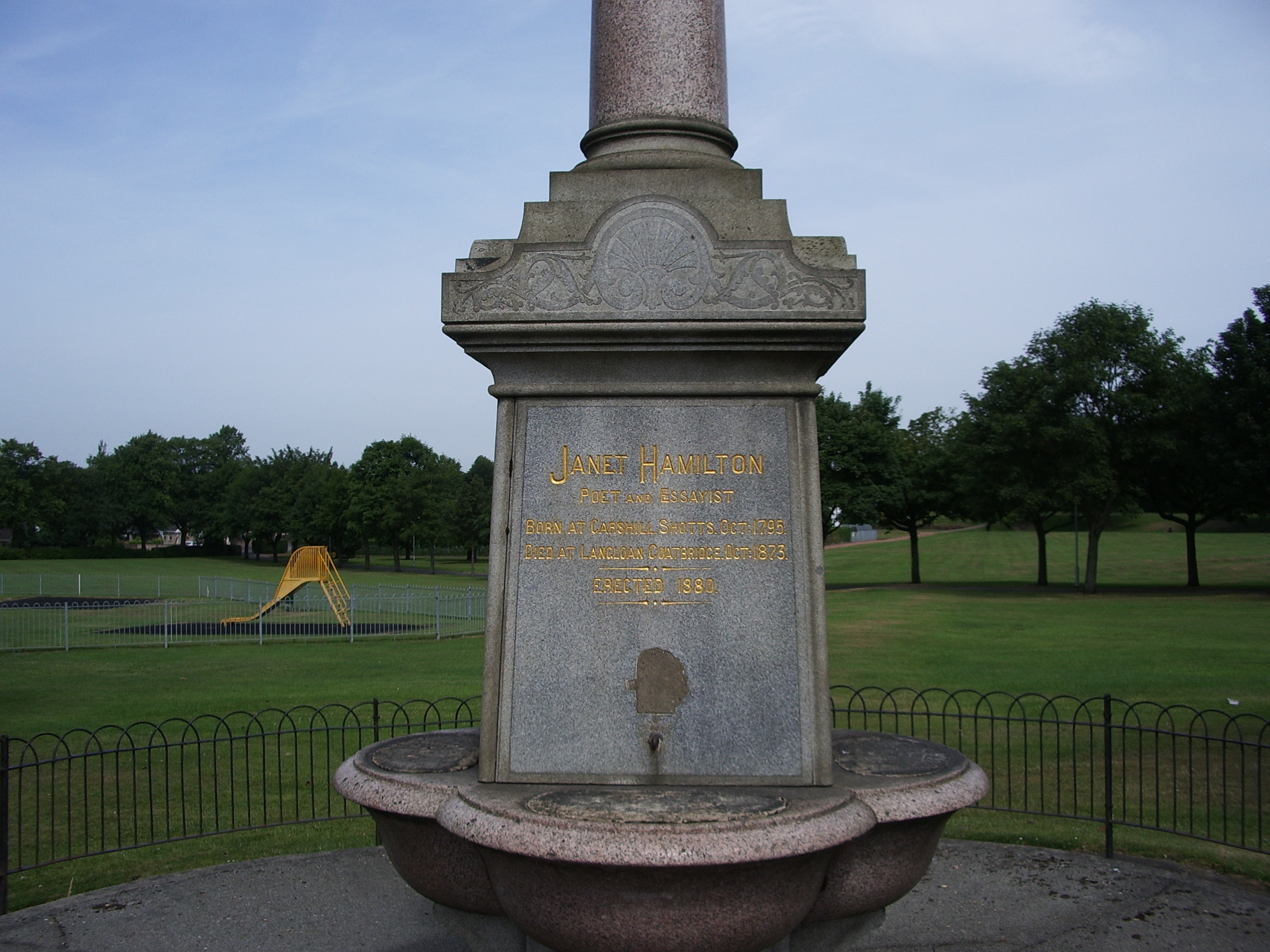 Janet Hamilton Fountain (detail), West End Park, Coatbridge, Scotland, looking north